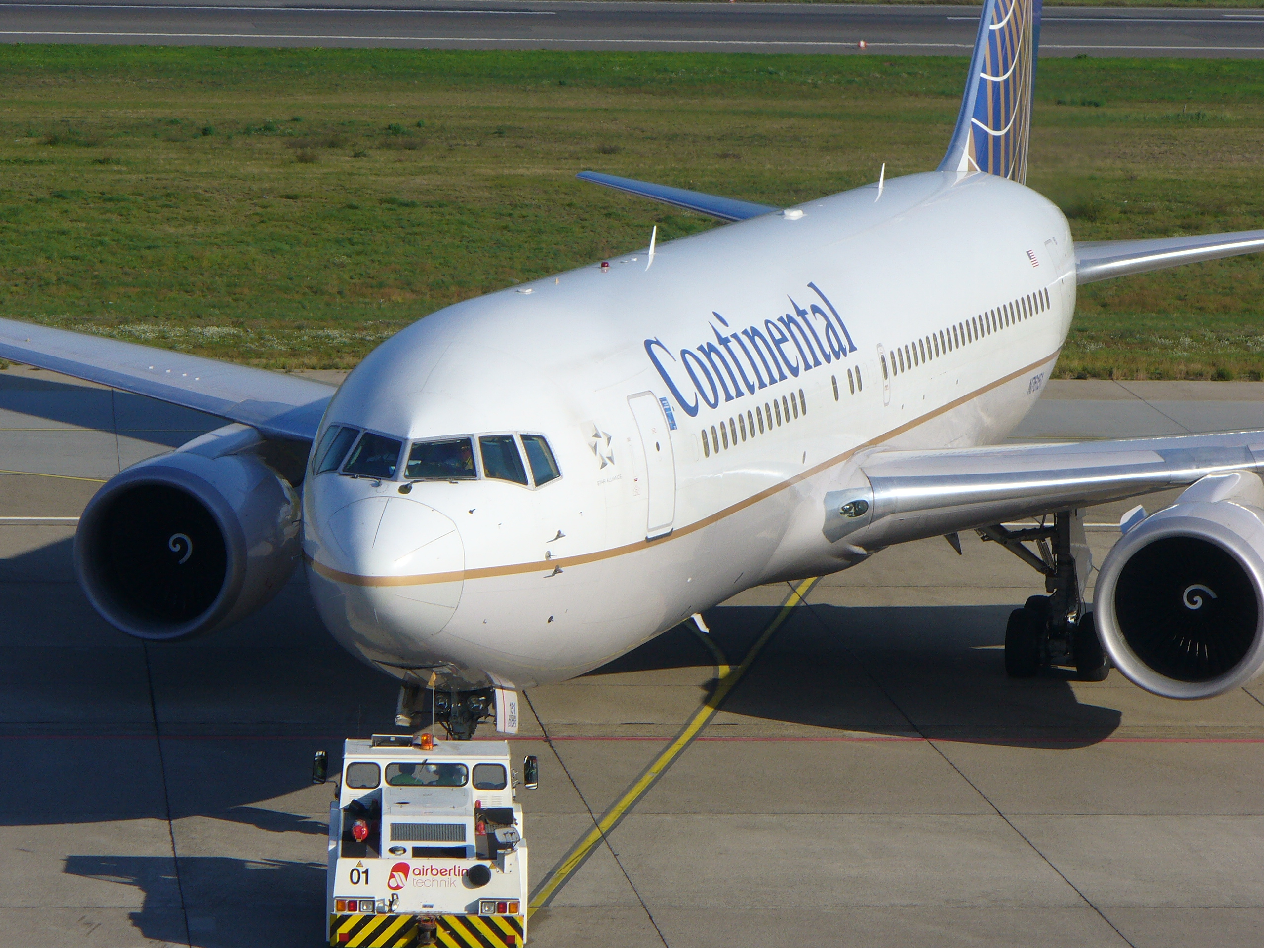 A Continental Airlines Boeing 767-200ER (registered N76151) being pushed back from gate at Berlin Tegel Airport.